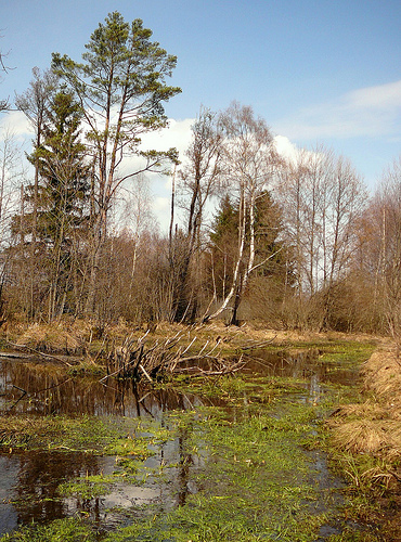 Hojkov peat-bog